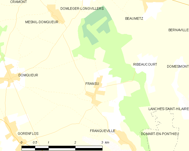 Map of French municipality Fransu